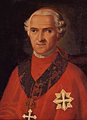 Agostino Rivarola